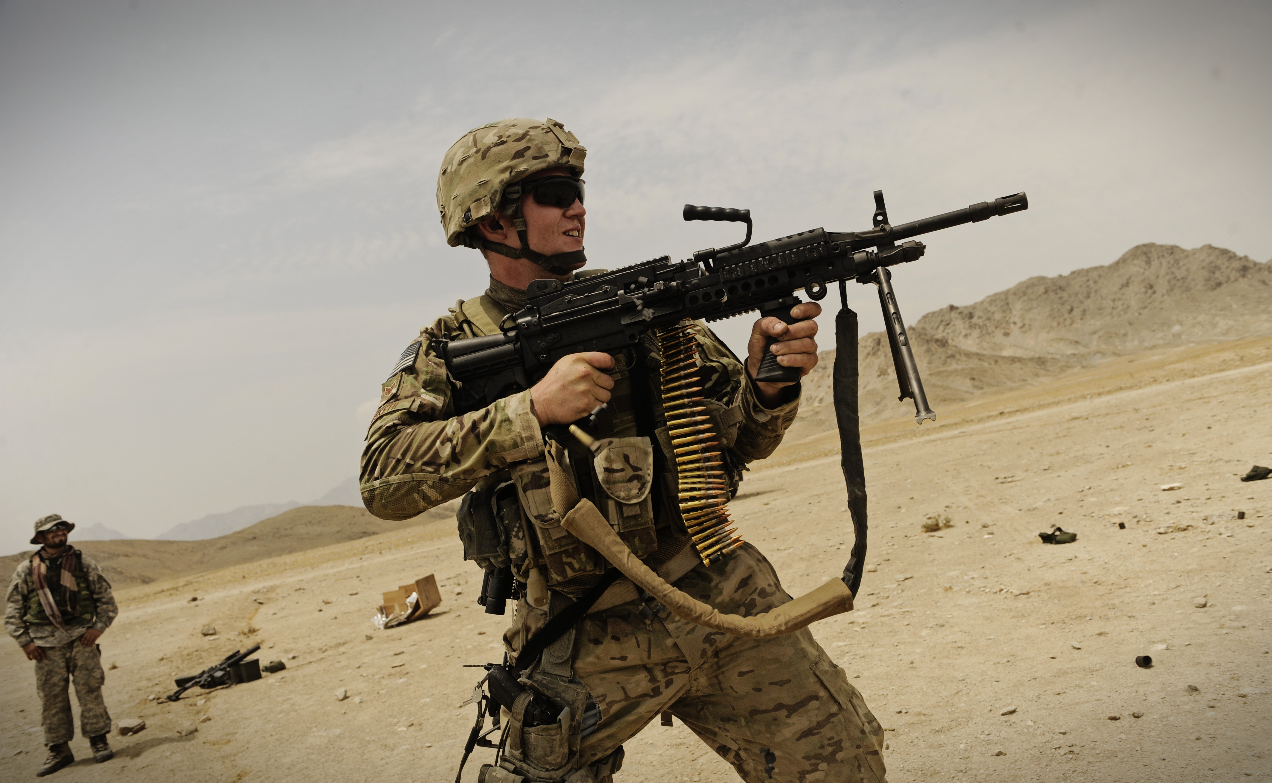 U.S. Air Force Staff Sgt. Timothy Husketh, a vehicle maintainer attached to the Laghman Provincial Reconstruction Team (PRT), fires his Mk-48 machine gun at wooden targets while practicing at an off-base firing range near Forward Operating Base Mehtar Lam on Aug. 6, 2011.